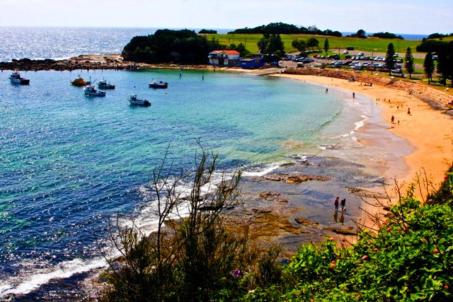 Good morning from sunny Australia we have really had the best weather its awesome anywhoo enough about that ………I am catching up …. My piece of heaven or paradise :)) This is for JASONPANG88 ..This is my seascape/landscape??? …….It “The Haven” at Terrigal on the Central coast in NSW …I have been to this beach every year of my life and its where we go for our family holidays the relos have a house we all share and its awesome nothing changes but so many memories for me indeed ….. We snorkel down there and I have done a tad of fishing but I am not a fan of fishing at all ....there huge stingrays in there they are local ... they come right up to the shore …..so much sealife too its great … hehheheh !!! Two nuns are ordered to paint a room in the convent, and the last instruction of the Mother Superior is that they must not get even a drop of paint on their habits. After conferring about this for a while, the two nuns decide to lock the door of the room, strip off their habits, and paint in the nude. In the middle of the project, there comes a knock at the door. "Who is it?" calls one of the nuns. "Blind man," replies a voice from the other side of the door. The two nuns look at each other and shrug, and, deciding that no harm can come from letting a blind man into the room, they open the door. "Nice gazongas," says the man, "where do you want these blinds?"